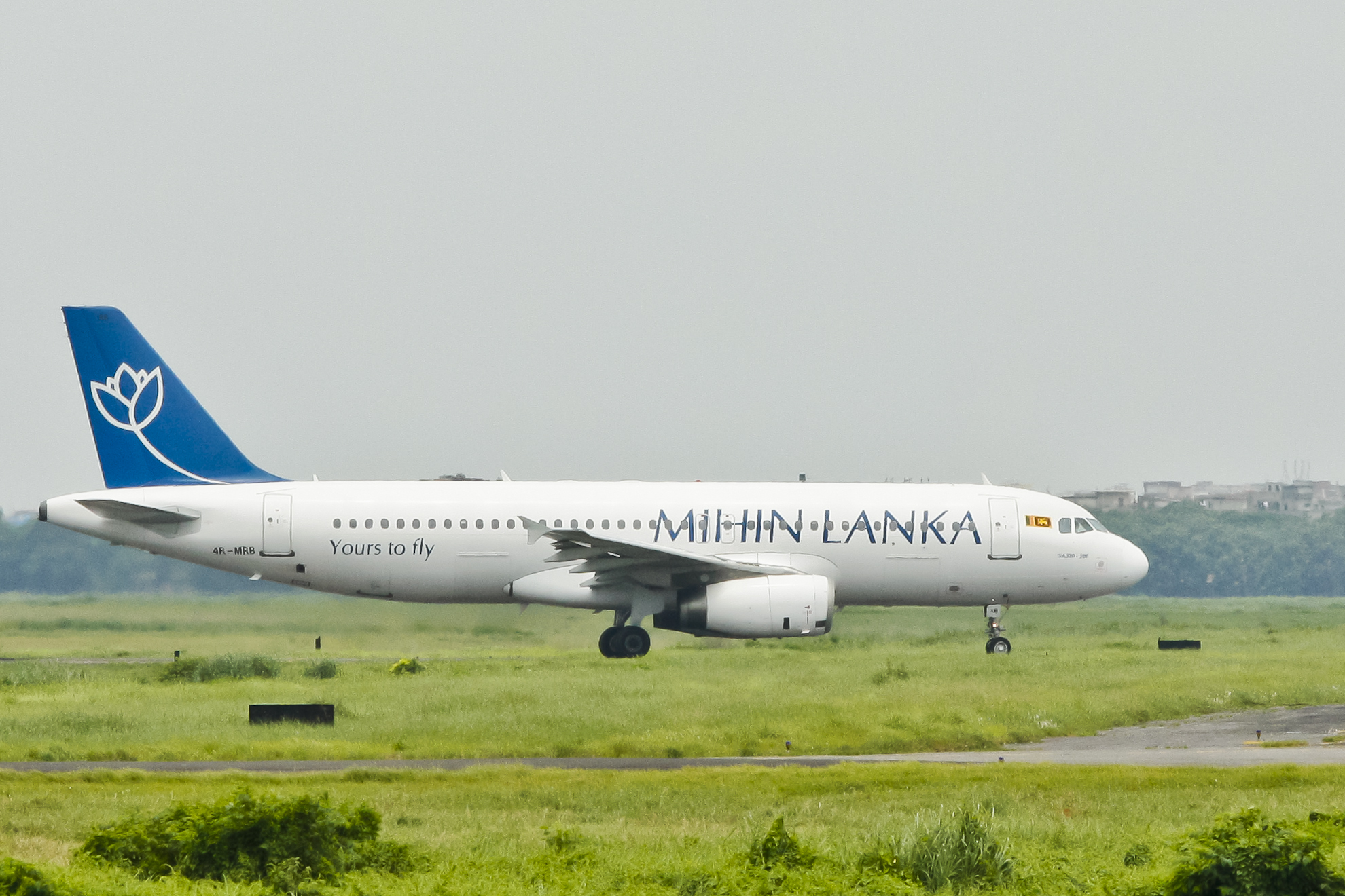 My 2nd spotting of the aircraft :) Mihin Lanka Airbus A320-232 ( 4R-MRB ) taxiing at Hazrat Shahjalal International Airport, Dhaka - VGZR